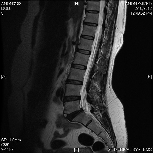 T2 W Sagittal image shows Limbus Vertebra at L5 anterio inferiorly, acquired by 1.5 T MRI scanner